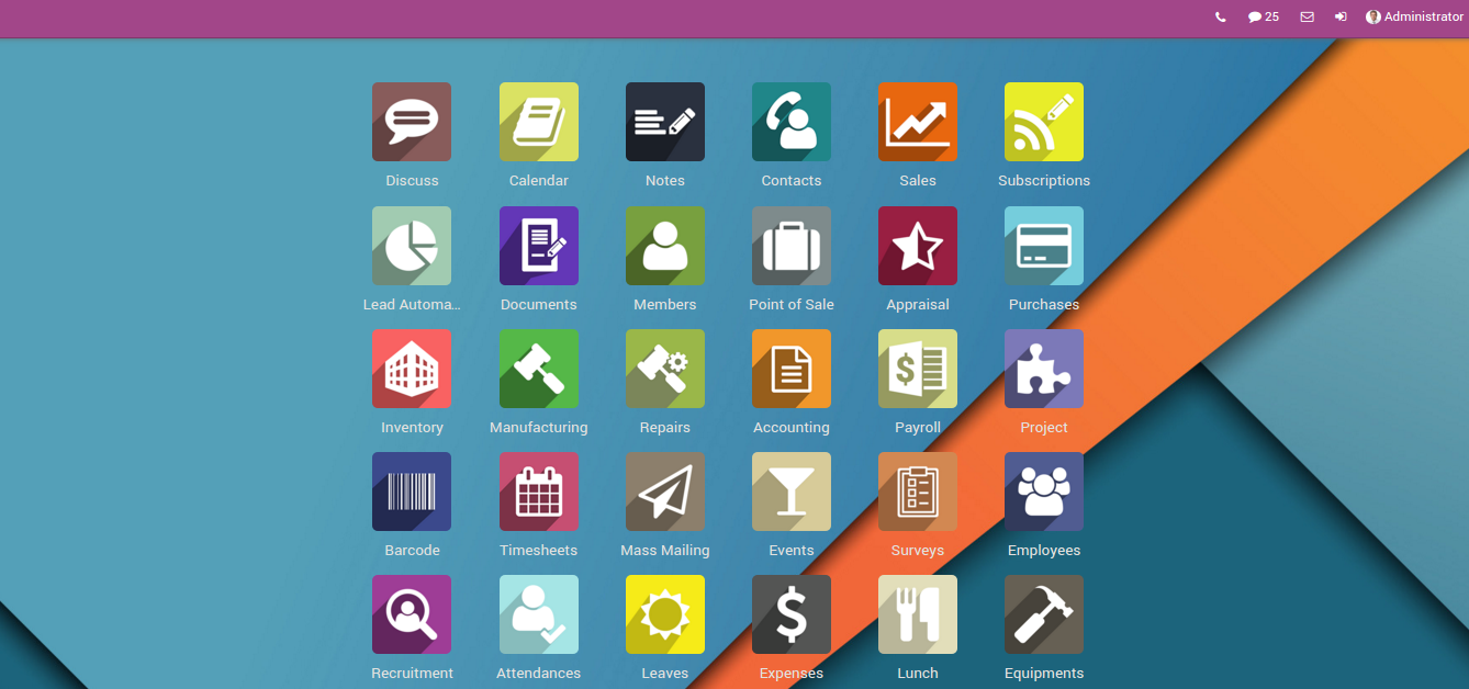 Enterprise Odoo